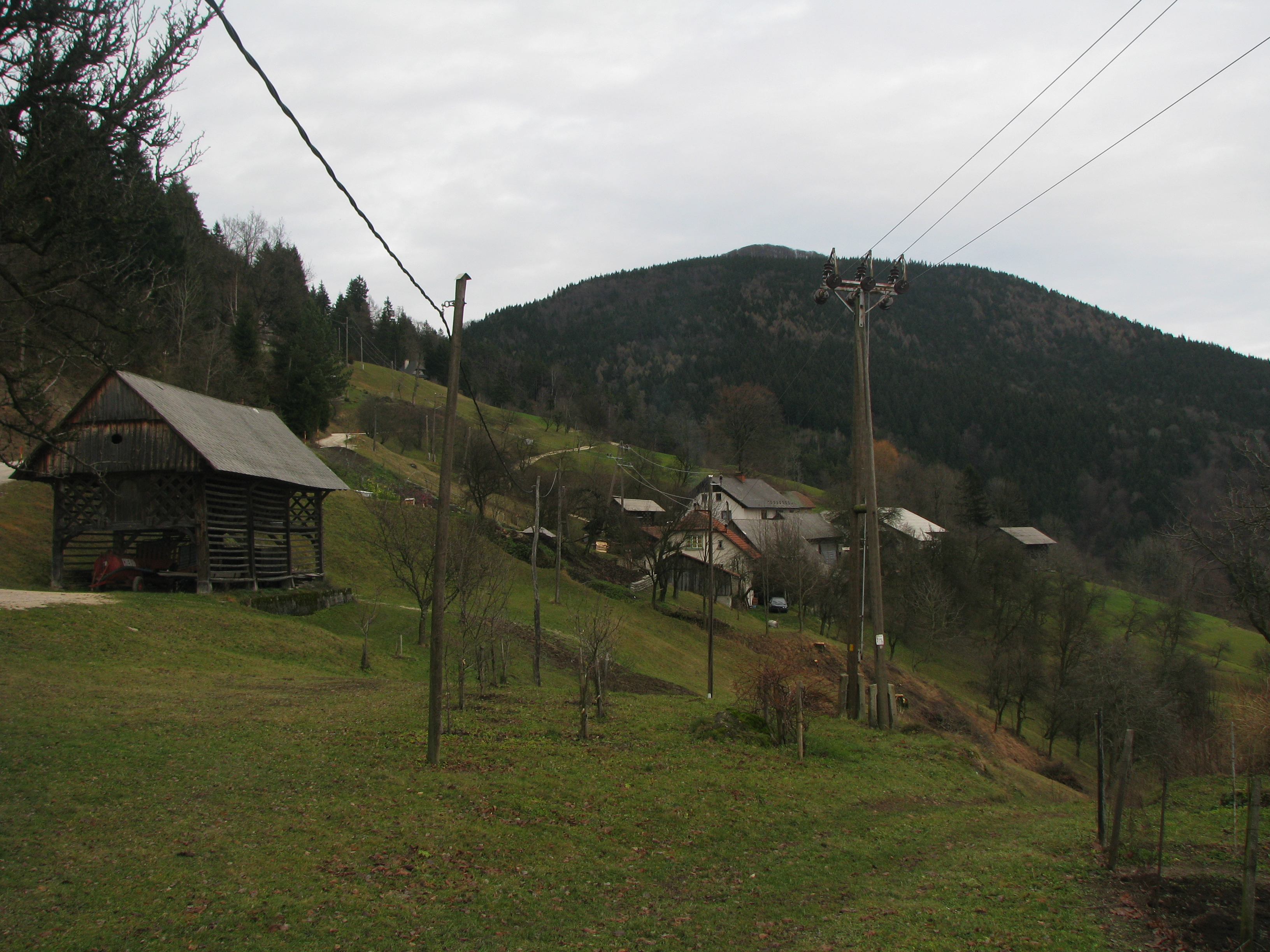 Village of Znojile in Zagorje ob Savi municipality, Slovenia